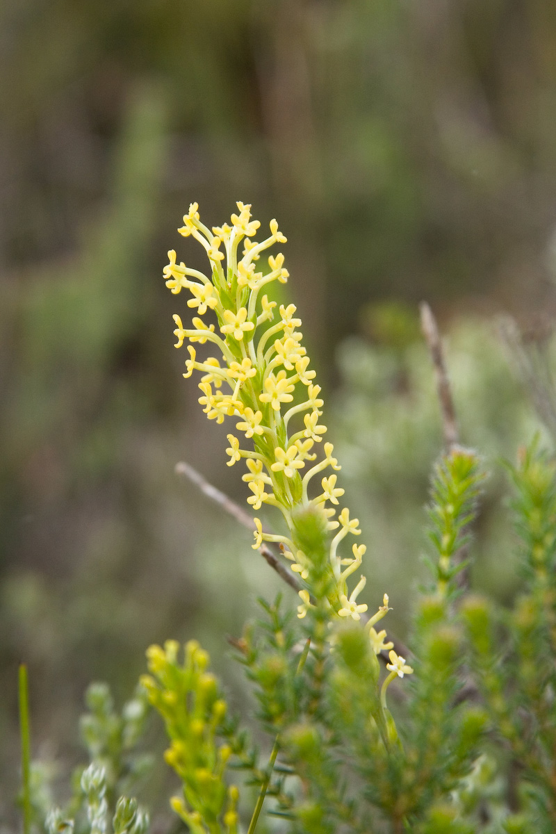 Agathelpis dubia, South Africa